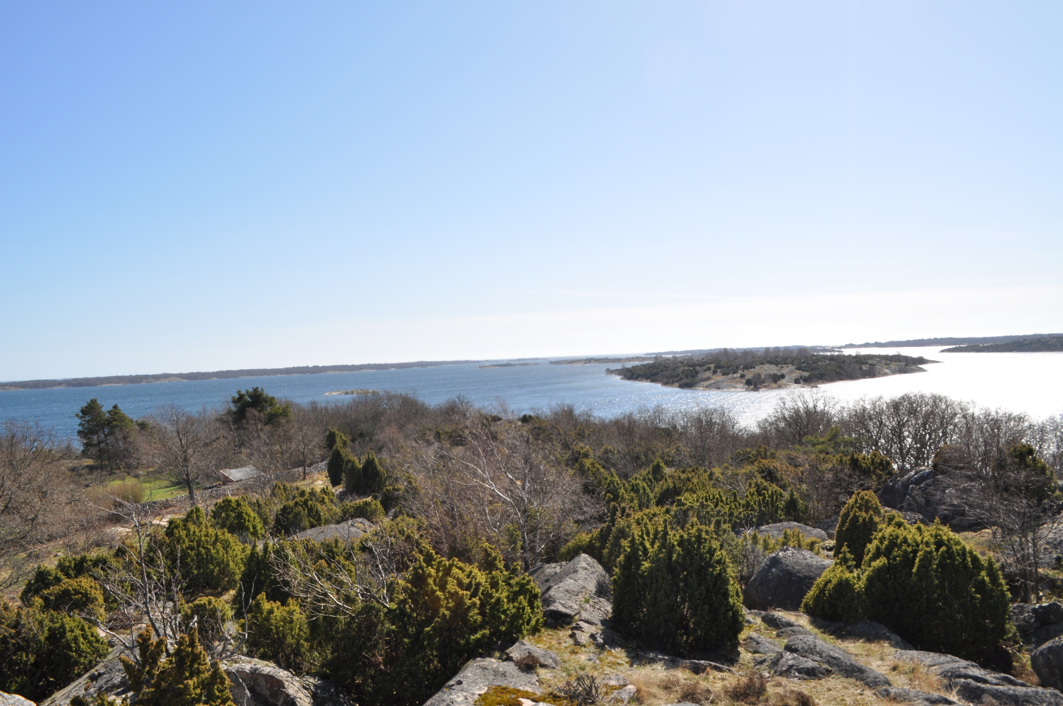 Blekinge archipelago - Gåsefjärden from Senoren